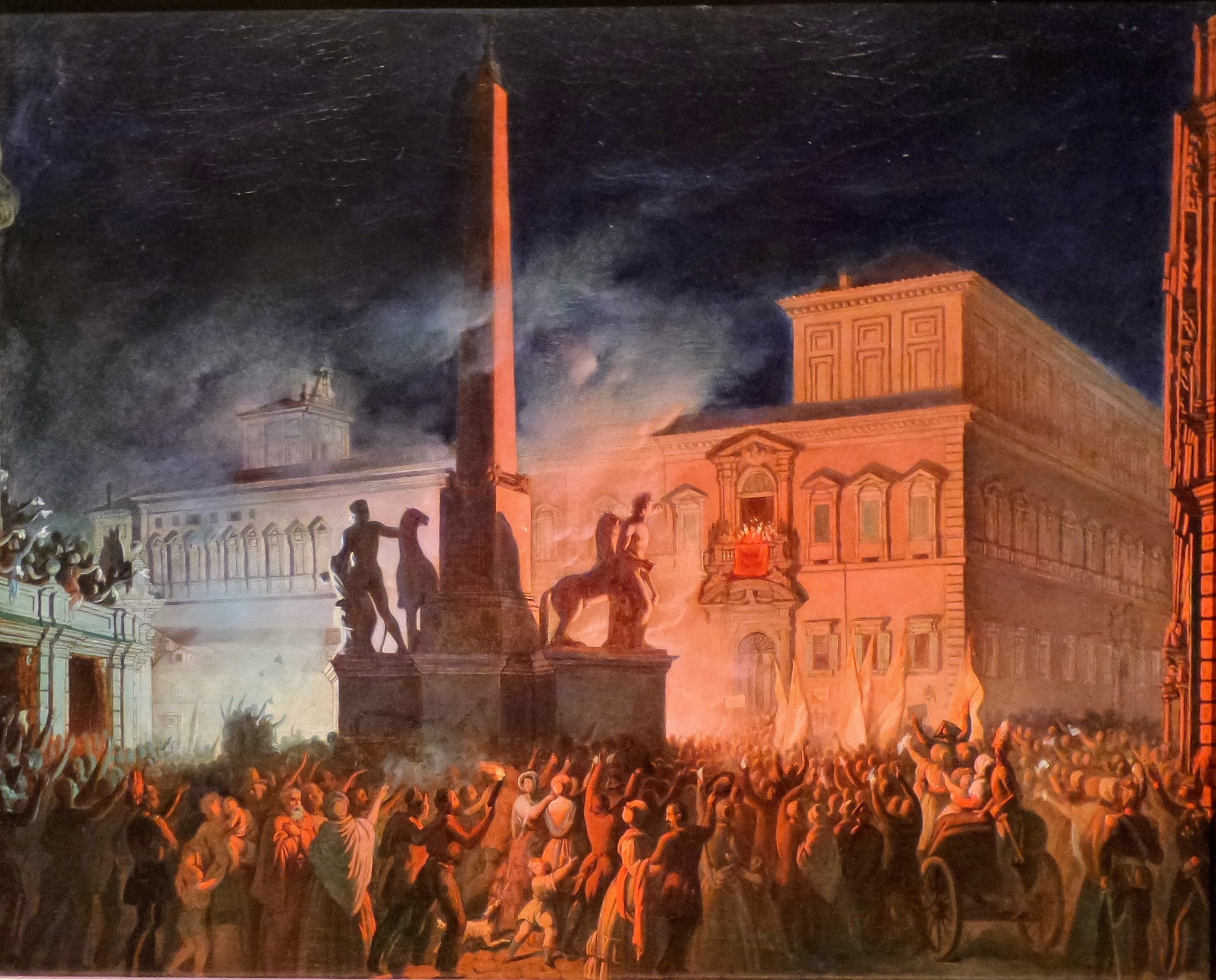 Oil on canvas. Tambov Regional Art Gallery Cat. 74